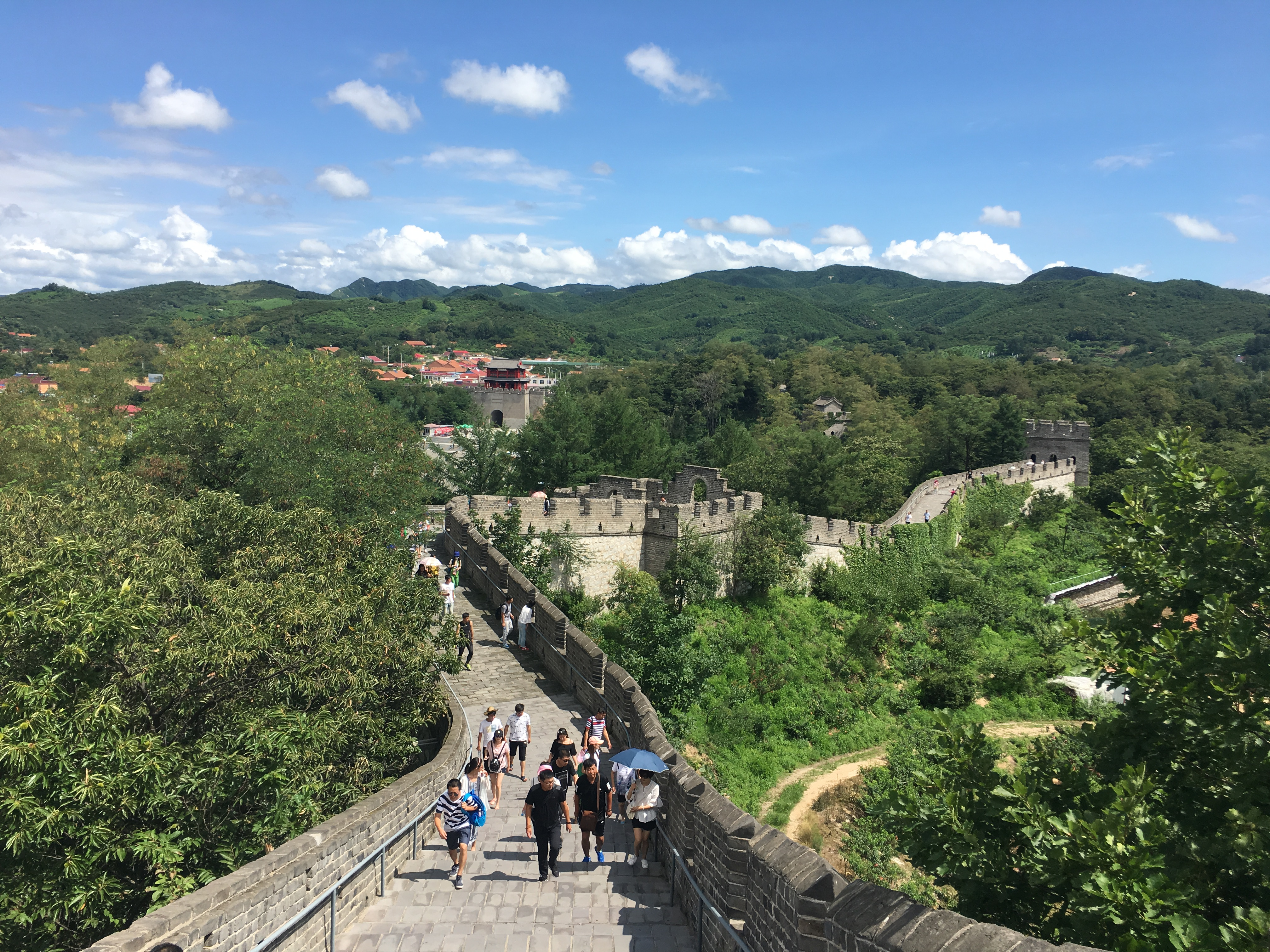 Hushan Great Wall from visitor area along the boarder to North Korea